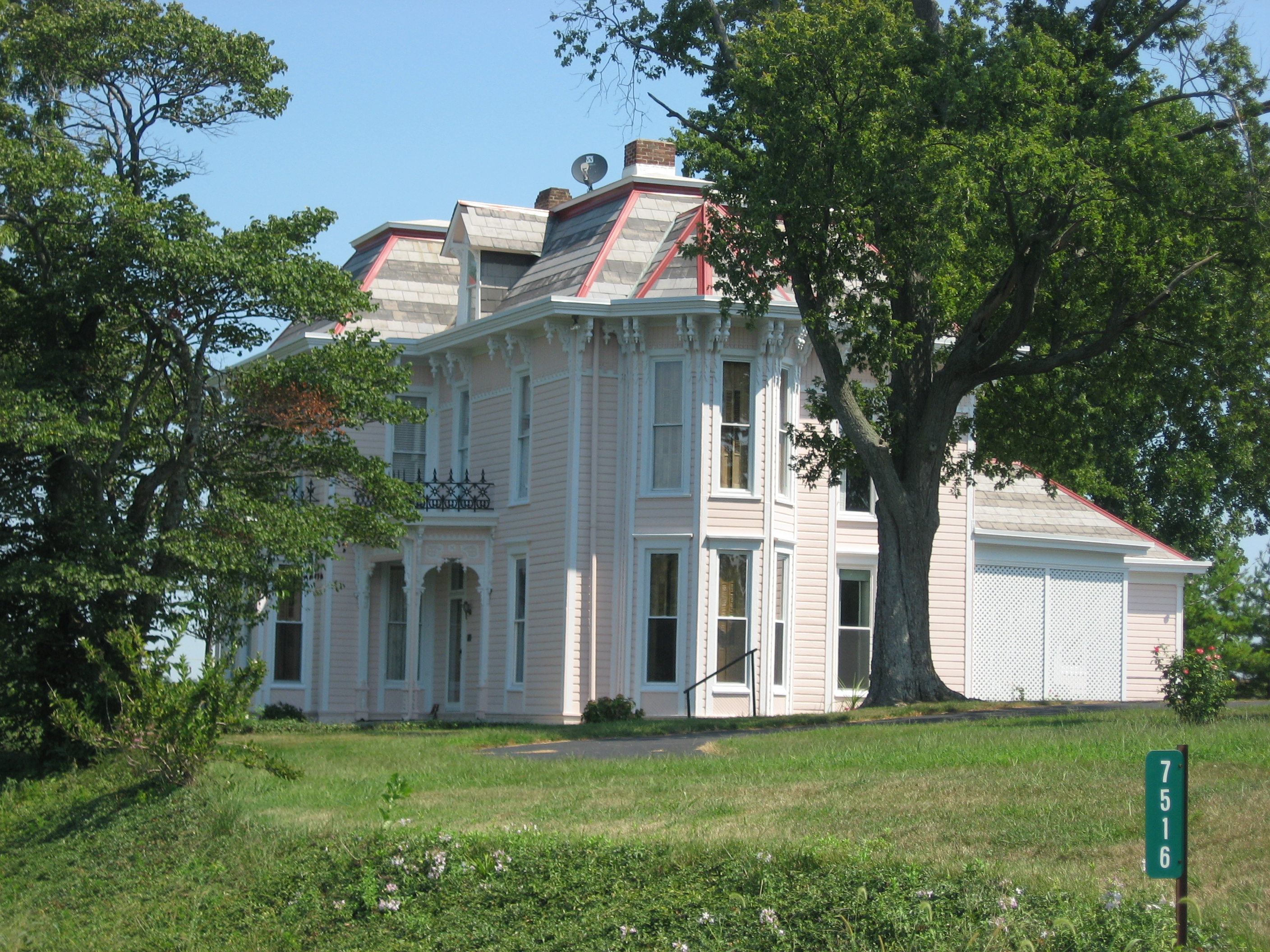 Front and southern side of the James F. Harcourt House, located at 7516 S. 500W near Moscow in Orange Township, Rush County, Indiana, United States. Built in 1867, it is listed on the National Register of Historic Places.